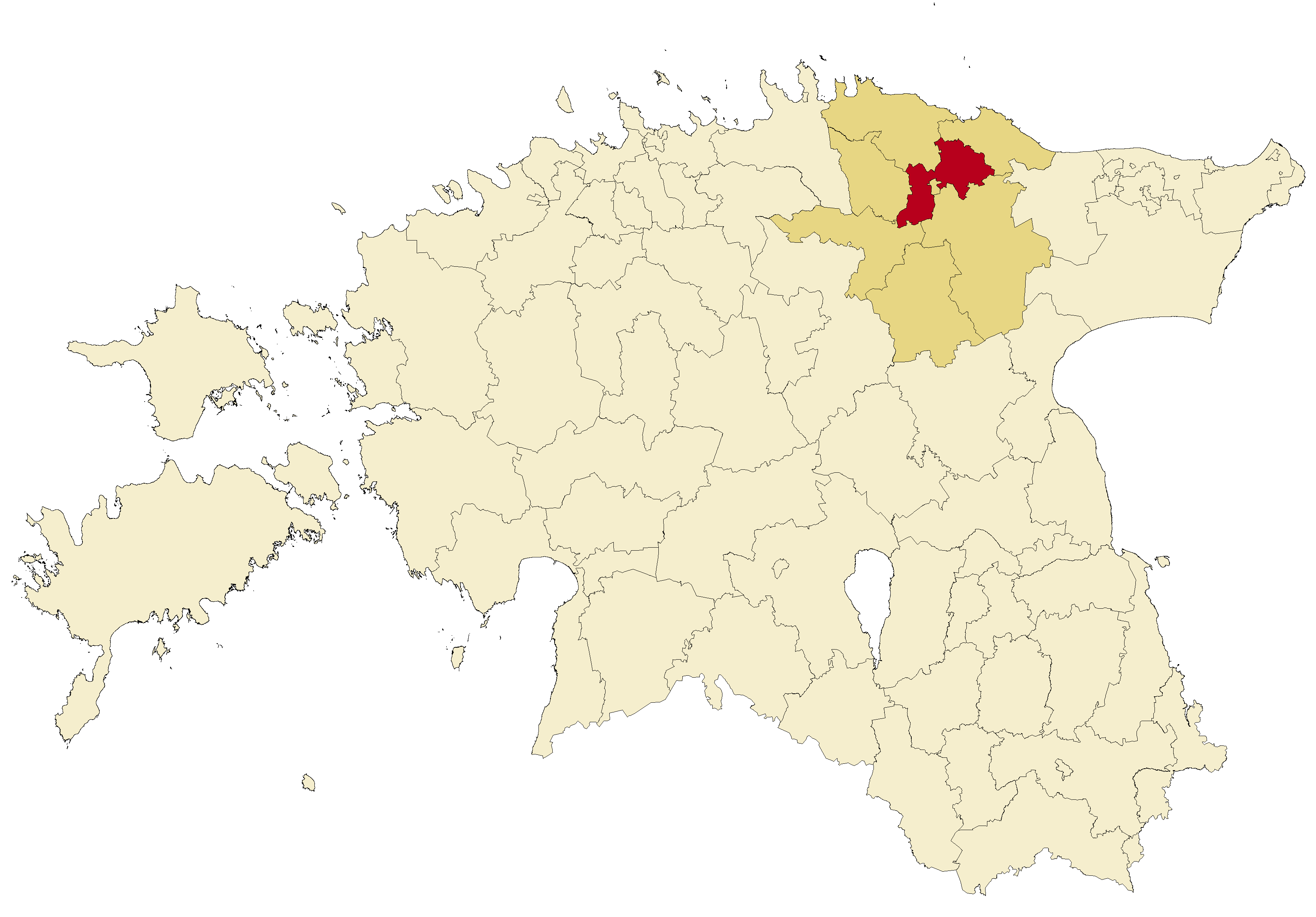 Location of Rakvere Parish (red) within Lääne-Viru County (dark yellow) after the Administrative Reform of Estonia in 2017.